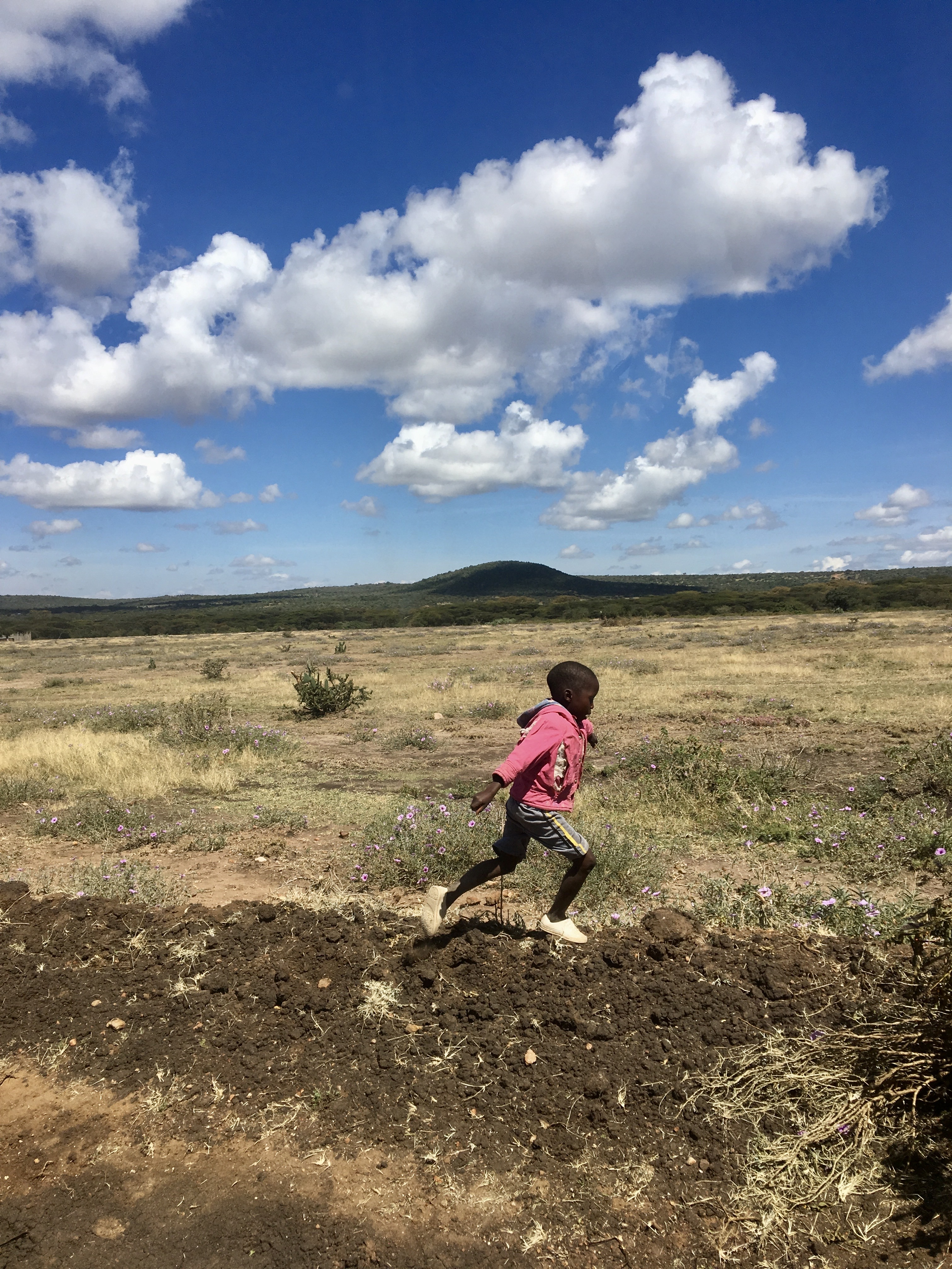 Little running boy in the Narok's fields (Kenya) This is an image with the theme "Africa on the Move or Transport" from: Kenya